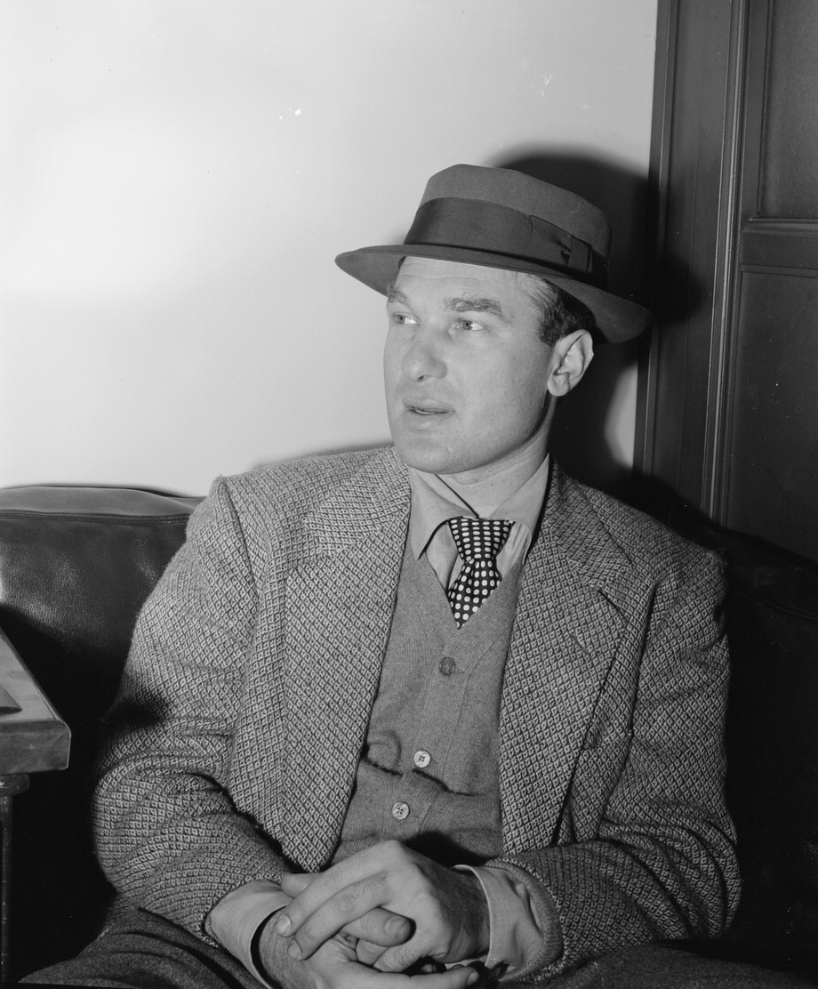 Norman Granz, ca. May 1947. Photography by William P. Gottlieb.